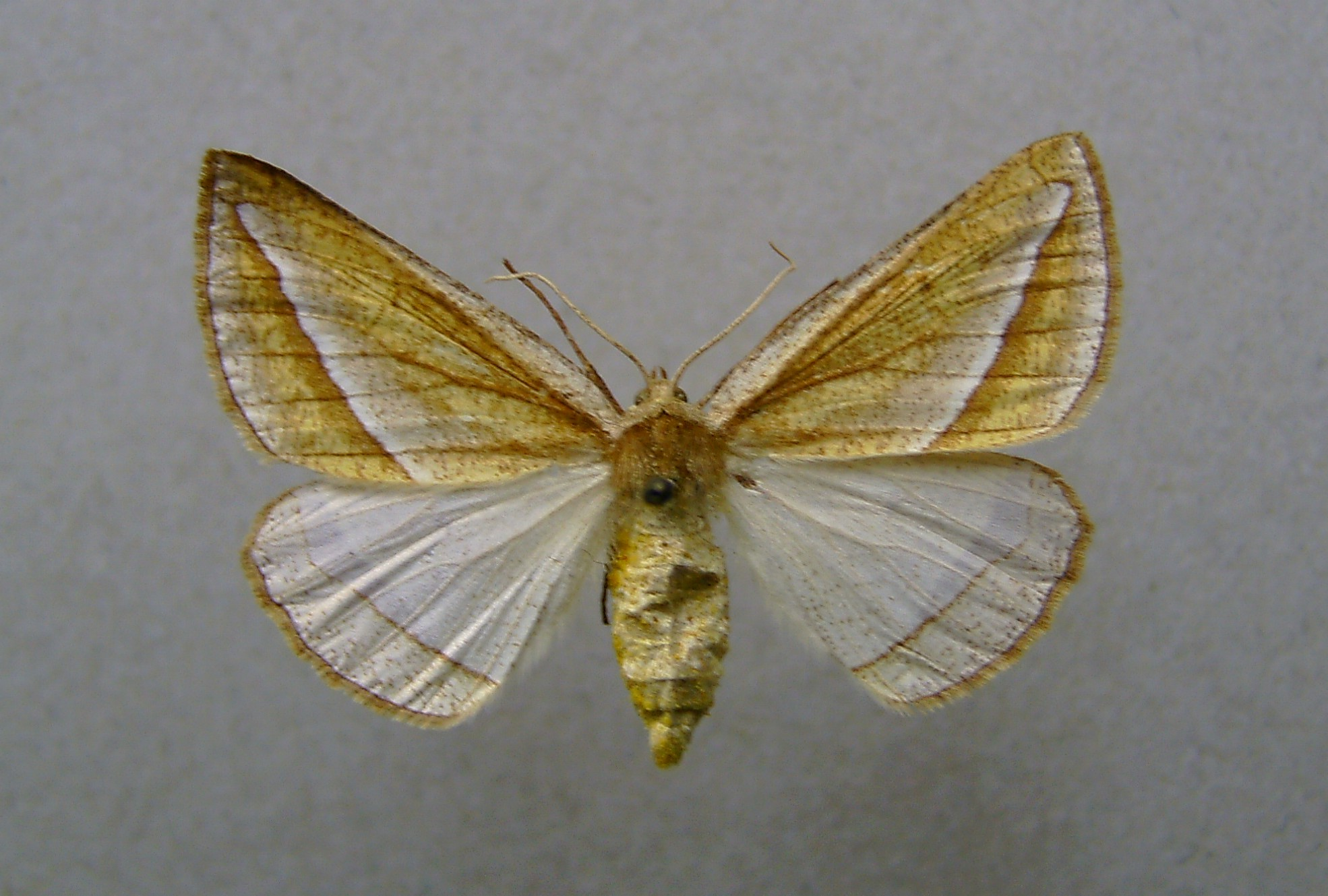 Chariaspilates formosaria, female, Anklam, Germany